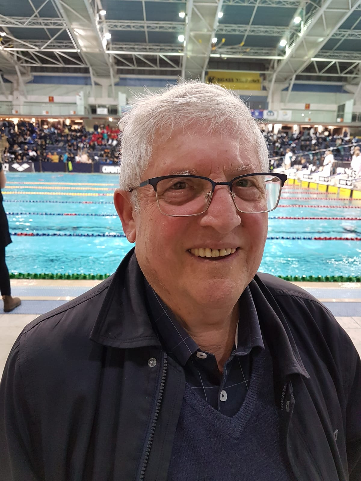 David Sivor at the Israeli swimming championship (25 meters swimming pool) December 2018